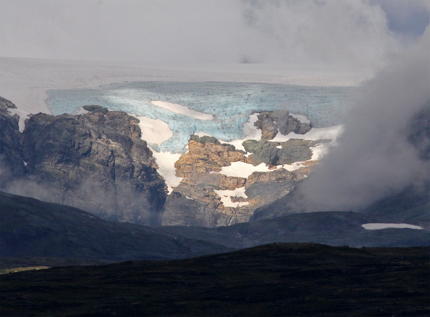 Hardangerjøkul